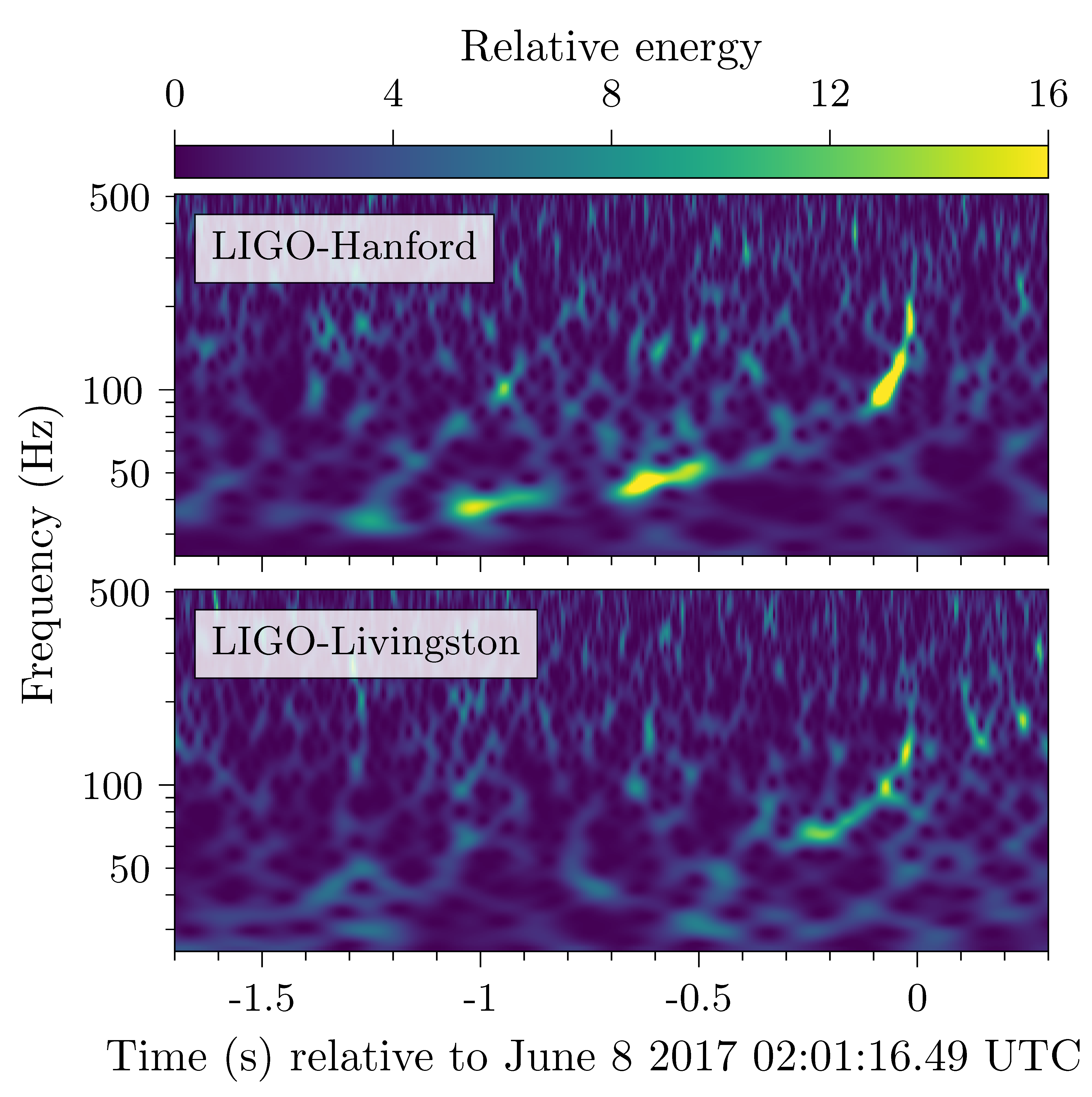 Energy in LIGO data as a function of time in seconds along the X axis and frequency in Hertz along the Y axis. The colors indicate the amount of energy at any given time/frequency, going from blue (low) to yellow (high). The curve from the lower left to the upper right, clearly visible in the Hanford data and hinted at in the Livingston data, is the gravitational wave signal from the black hole inspiral.